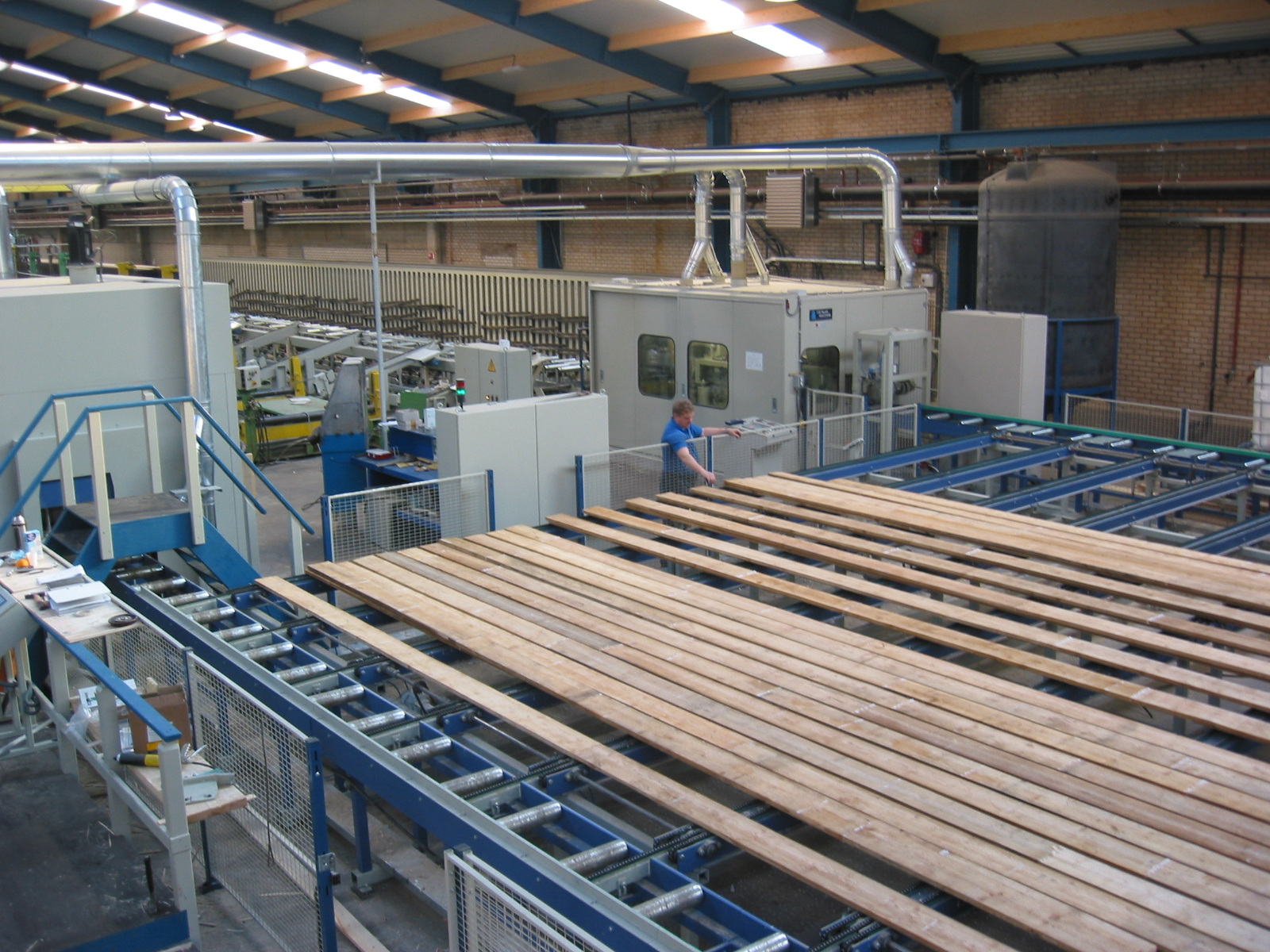 productie lijn heko spanten ede